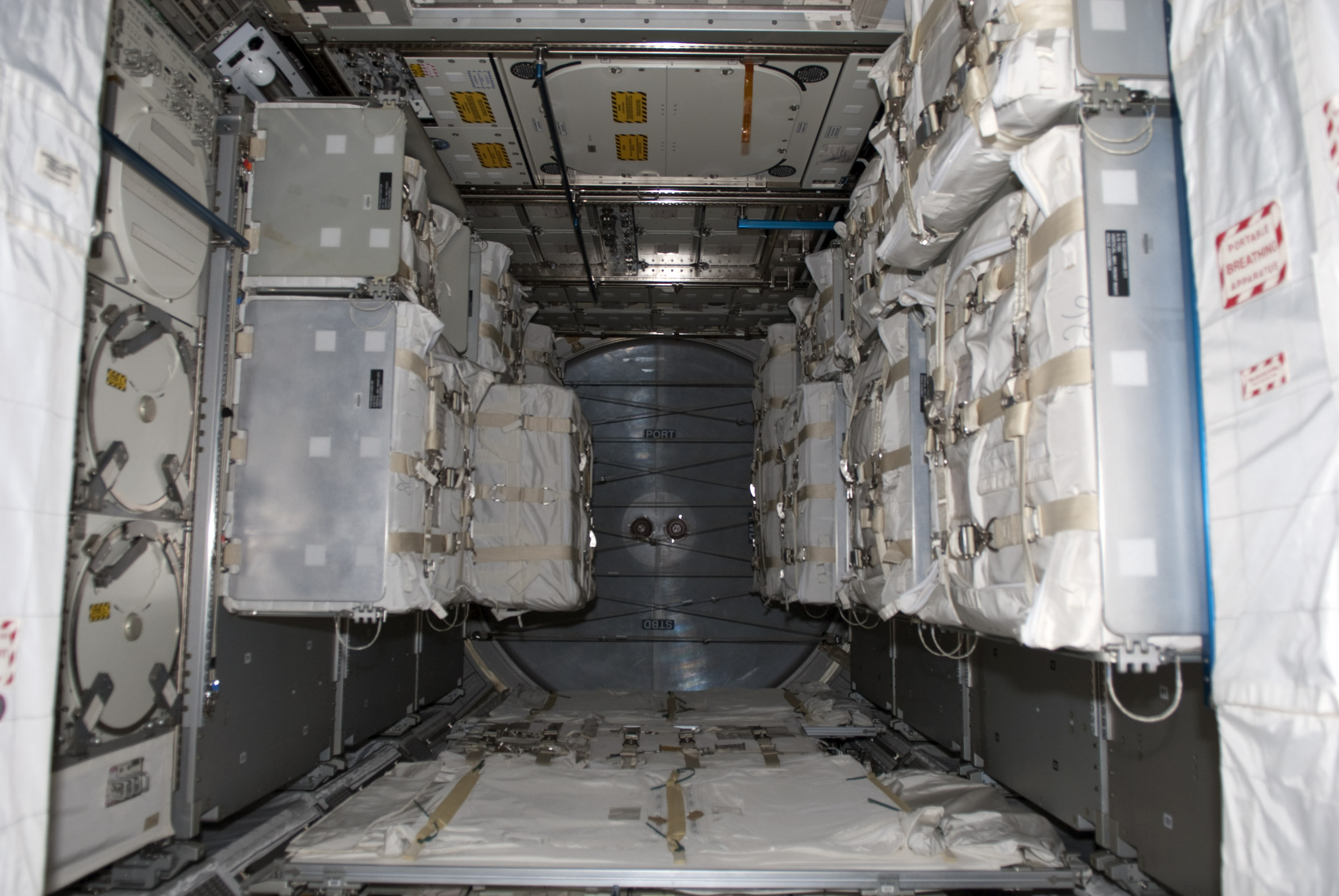 In the Space Station Processing Facility at NASA's Kennedy Space Center in Florida, the multi-purpose logistics module Leonardo is packed and ready for its hatch to be closed for its upcoming flight. The seven-member STS-131 crew will deliver Leonardo, filled with resupply stowage platforms and racks, to the International Space Station aboard space shuttle Discovery. Targeted for launch on April 5, STS-131 will be the 33rd shuttle mission to the station and the 131st shuttle mission overall.